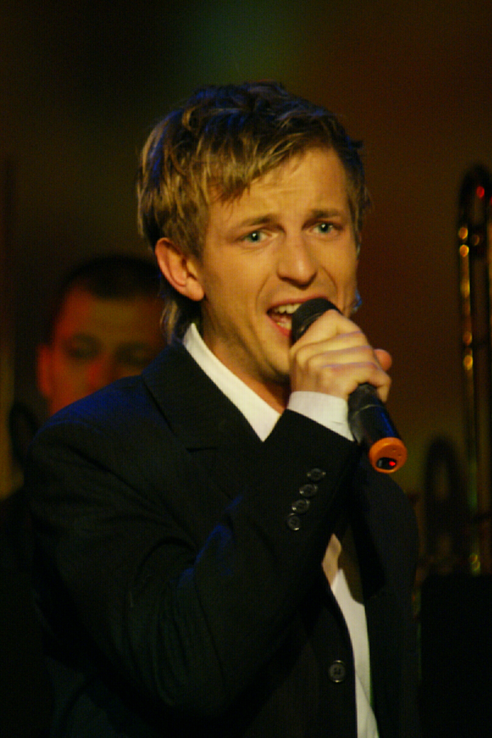 Krzysztof Rymszewicz performing at the Buffo Theatre in Warsaw